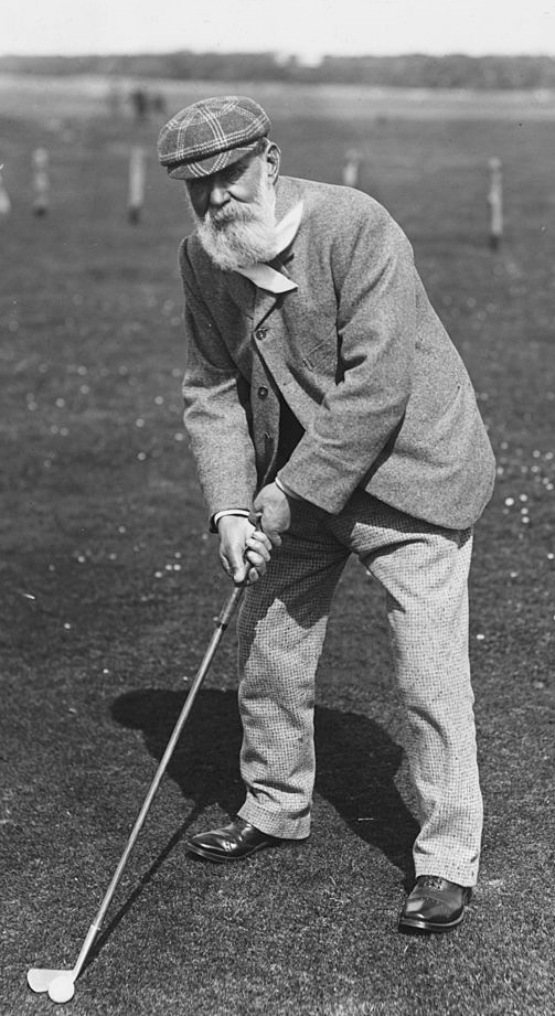 1880: Scottish golfer 'Old' Tom Morris (1821 - 1908) on a golf course.